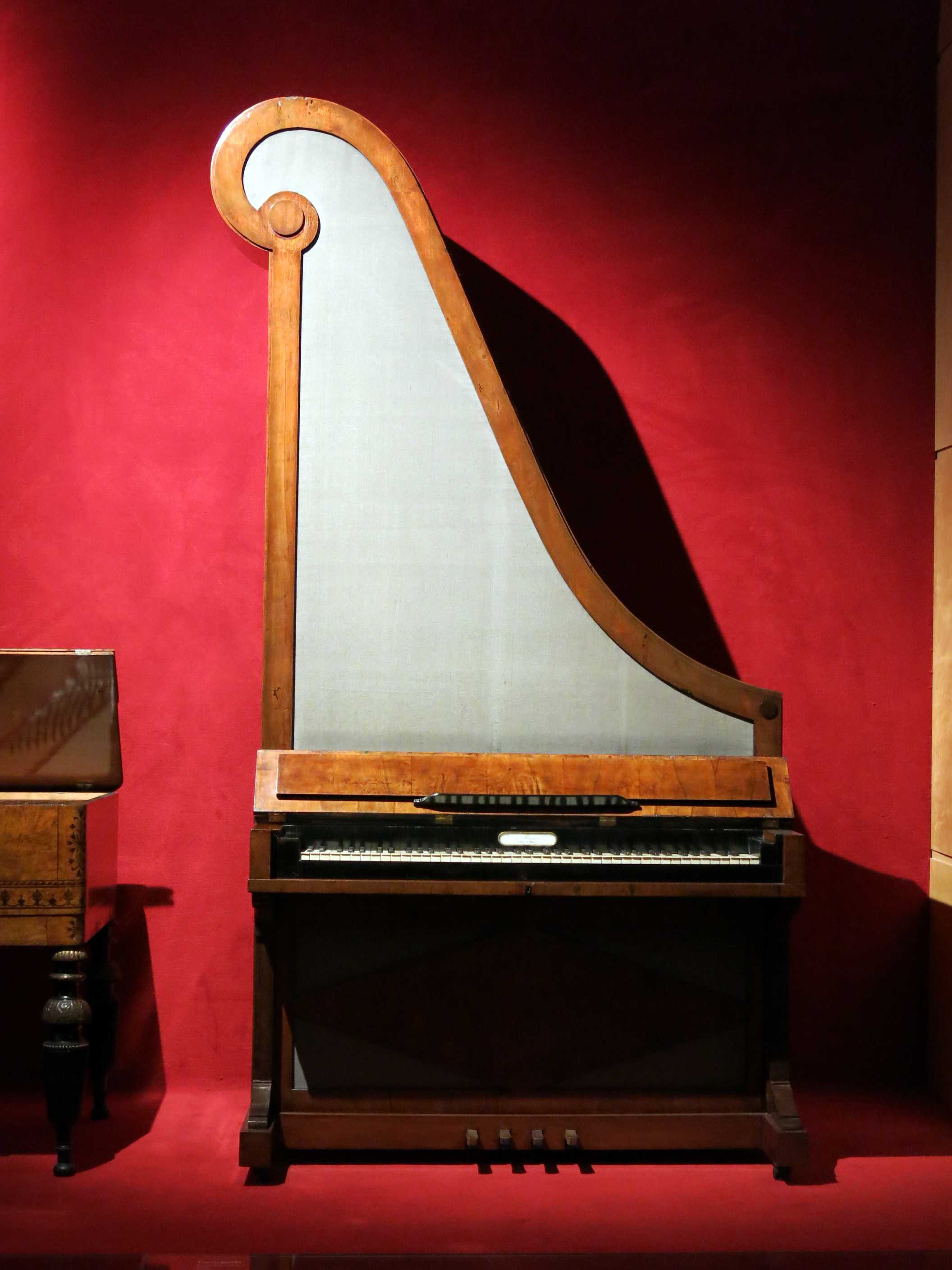 Giraffe piano, Franz Schumacher, Vienna, 1840, Museu de la Música de Barcelona MDMB 428: Piano girafa, Franz Schumacher (Autor), Viena, 1840